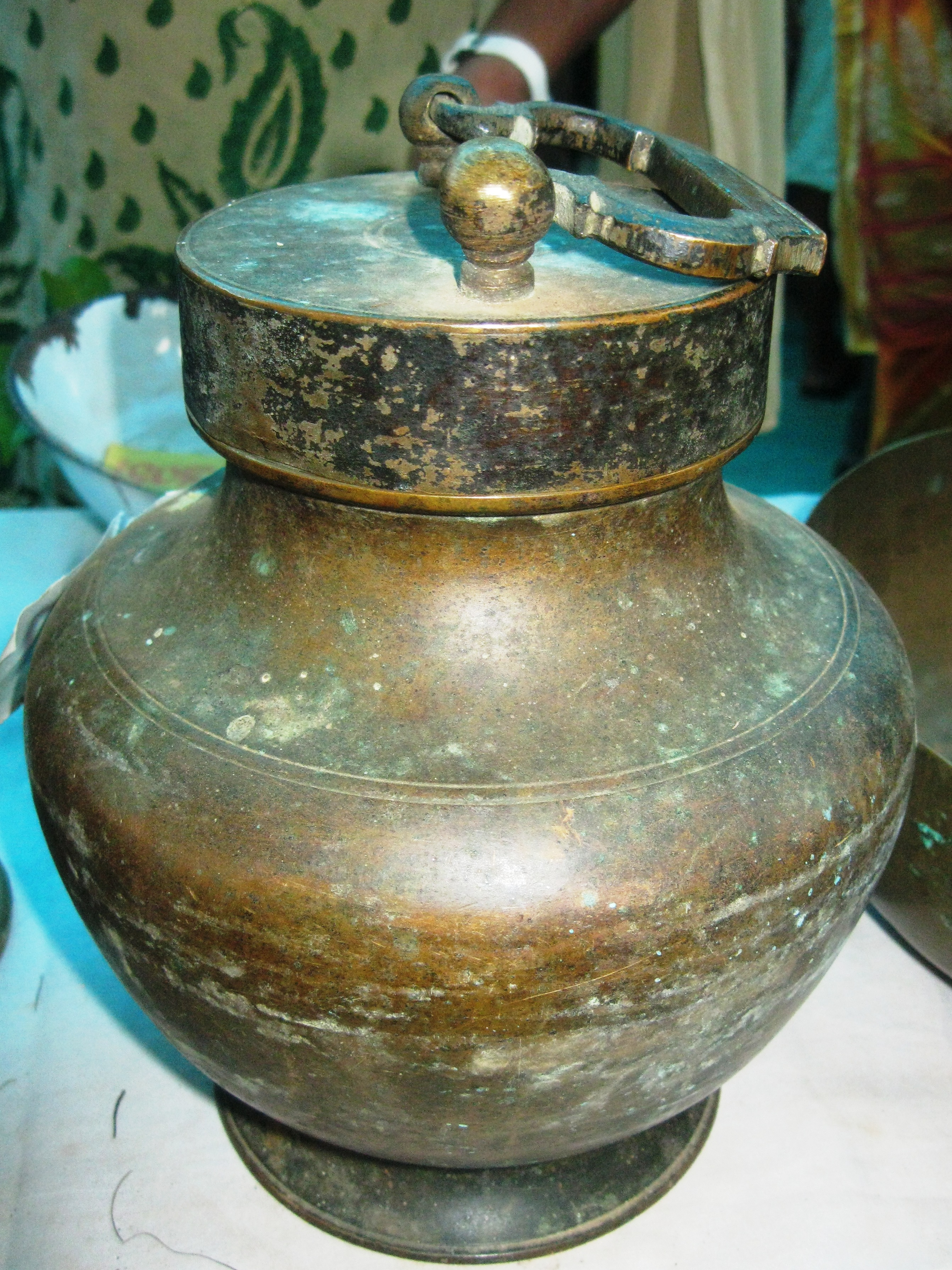 metal jug in kerala